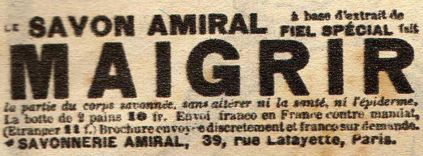 French advertising for a soap with ox bile, having alleged slimming properties